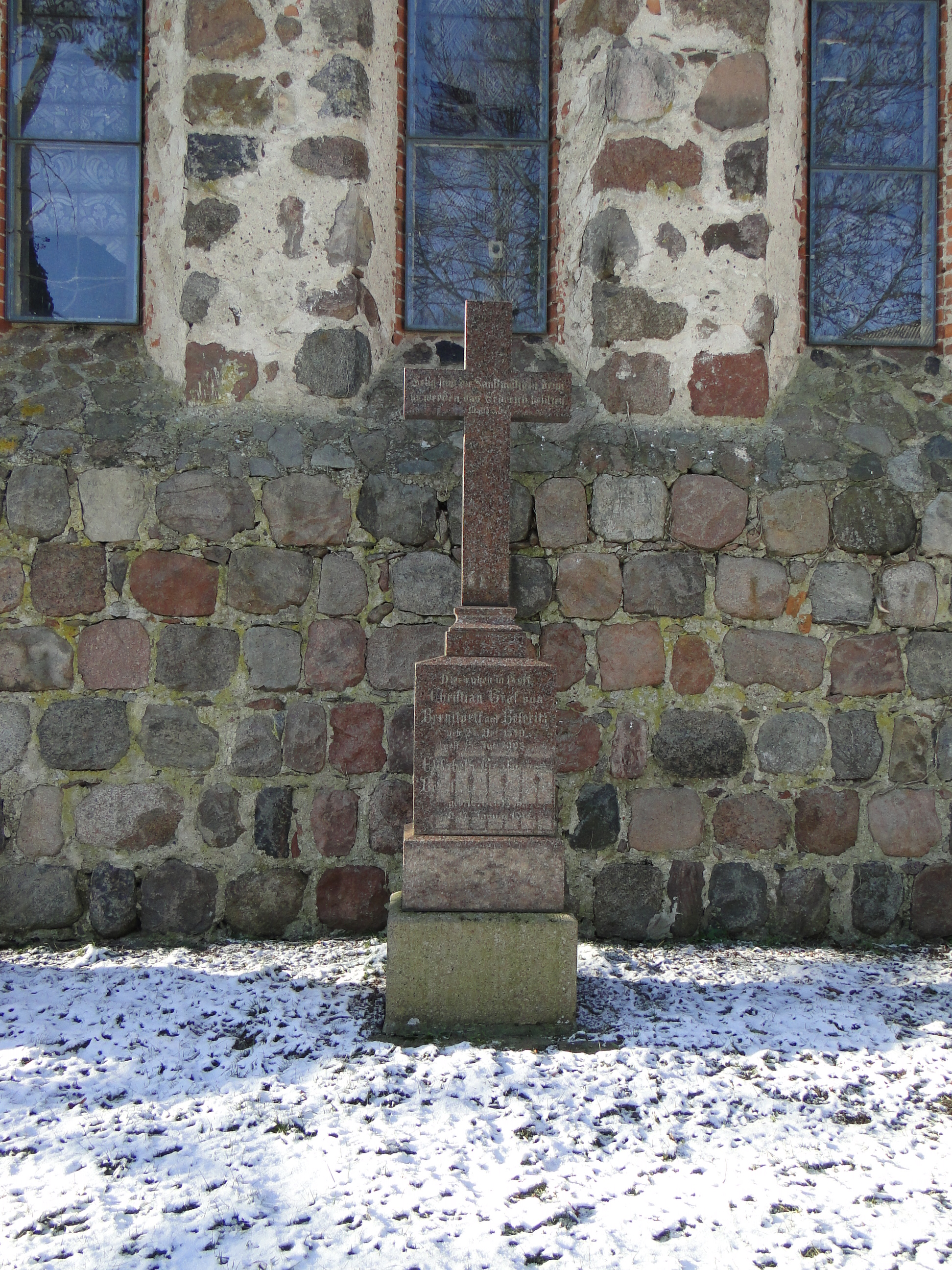 Gravecross at church in Beseritz, district Mecklenburg-Strelitz, Mecklenburg-Vorpommern, Germany